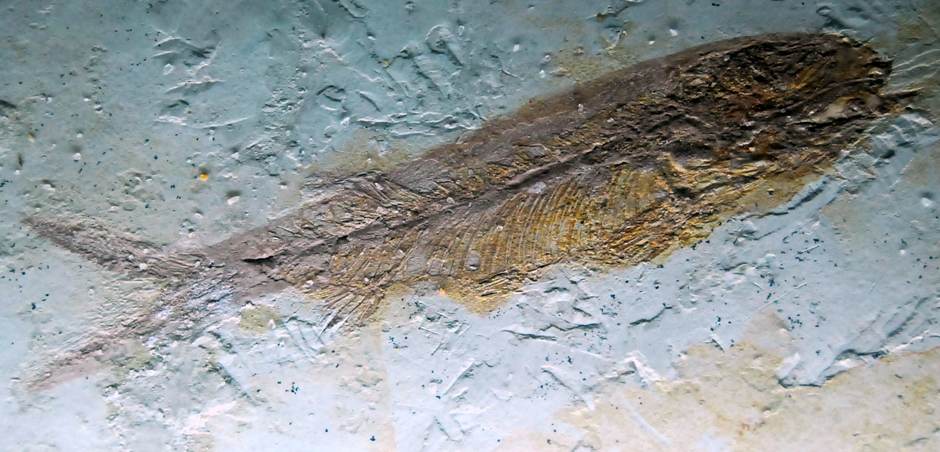 Lycoptera